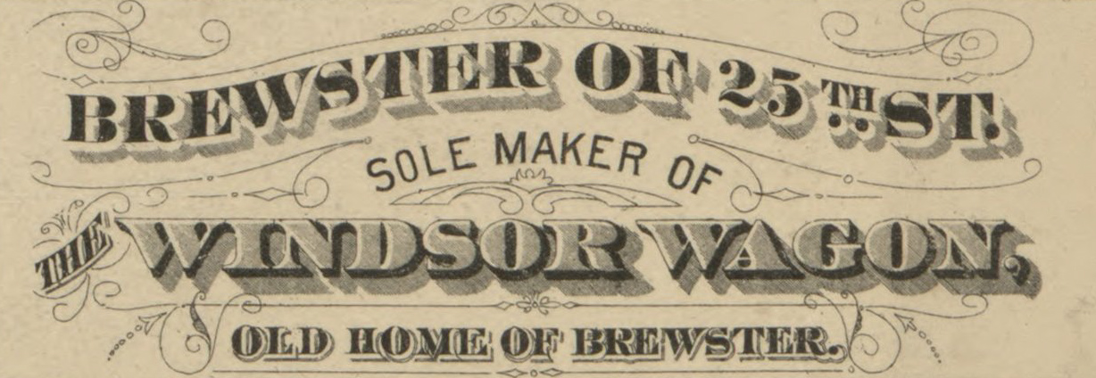 Detail from